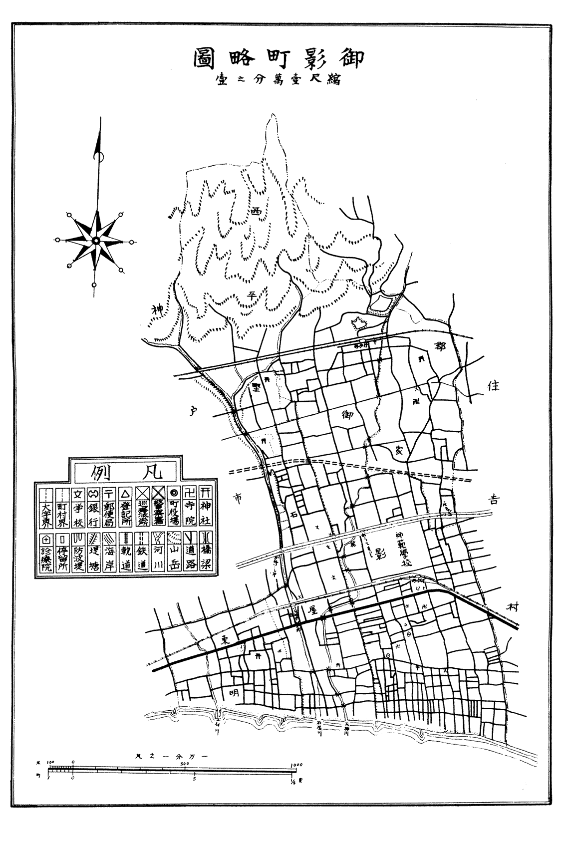 Map of Mikage, Muko, Hyogo, Japan